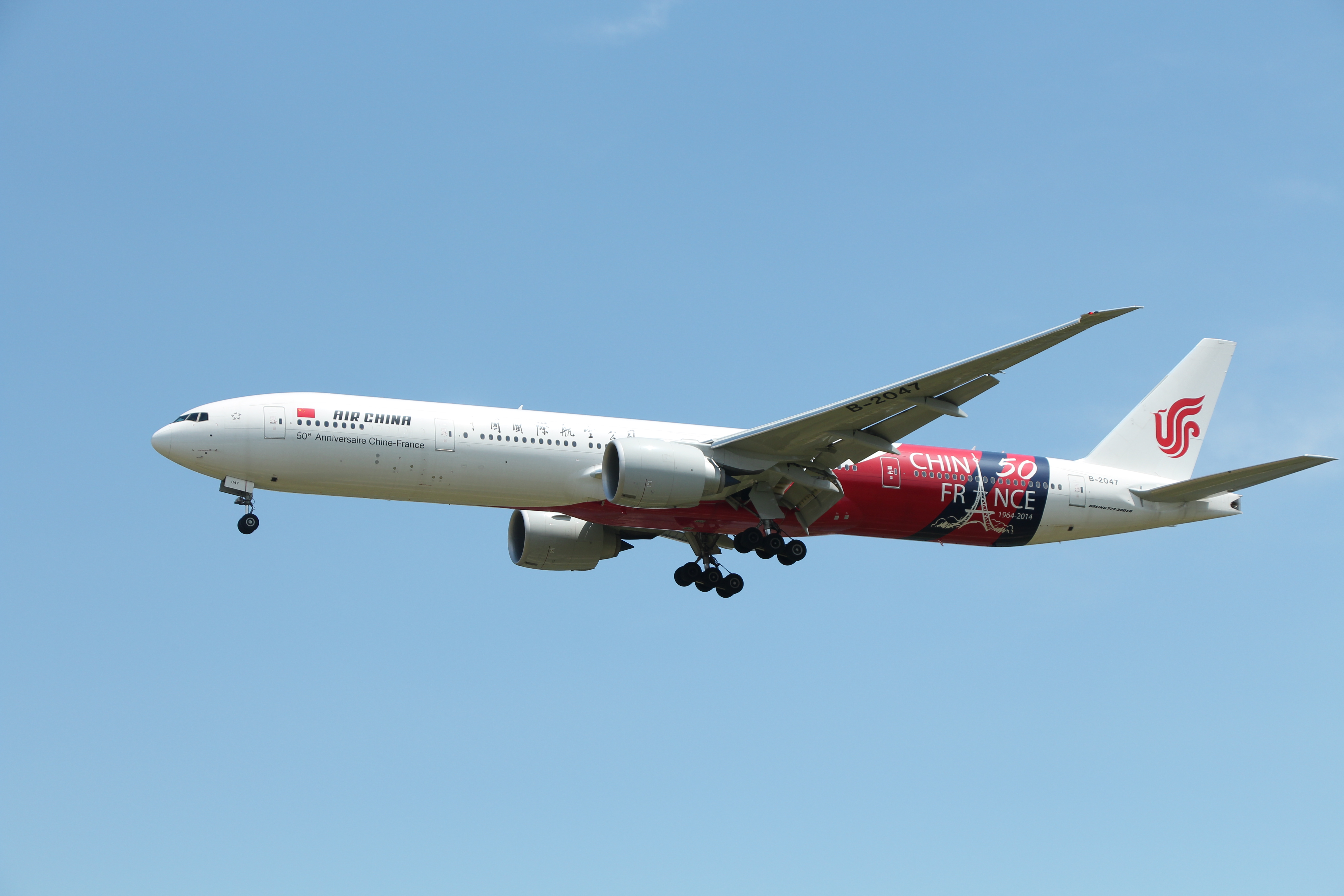 An Air China Boeing 777 in China-France 50 livery landing at Beijing Capital International Airport